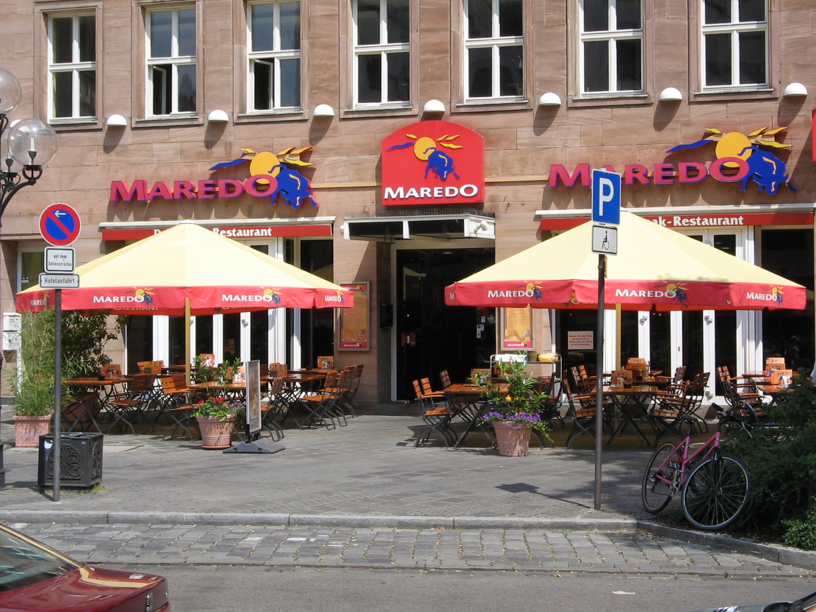 Maredo-Restaurant in Nuremberg, Germany